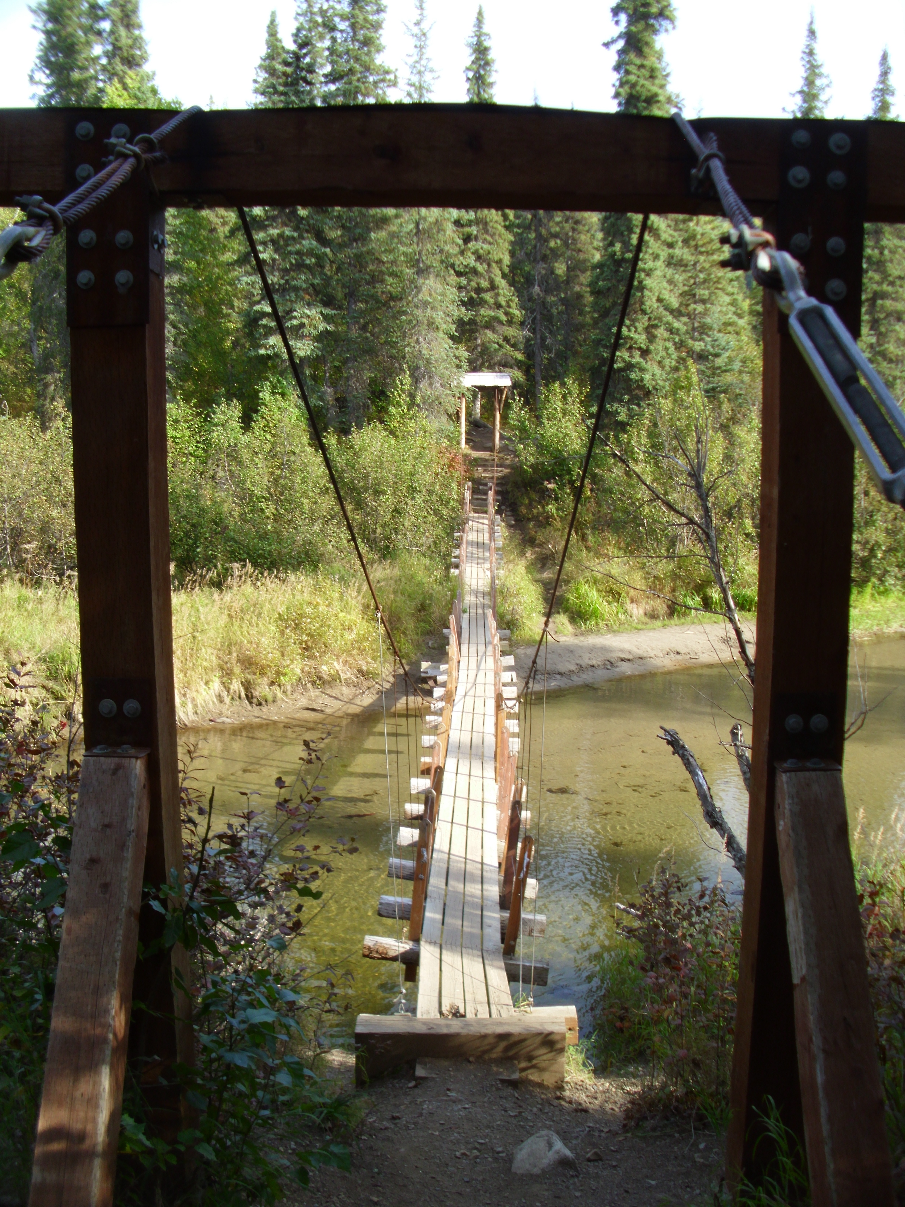 simple suspension bridge over the Byers Creek, near the outlet of Byers Lake, Denali State Park, Alaska